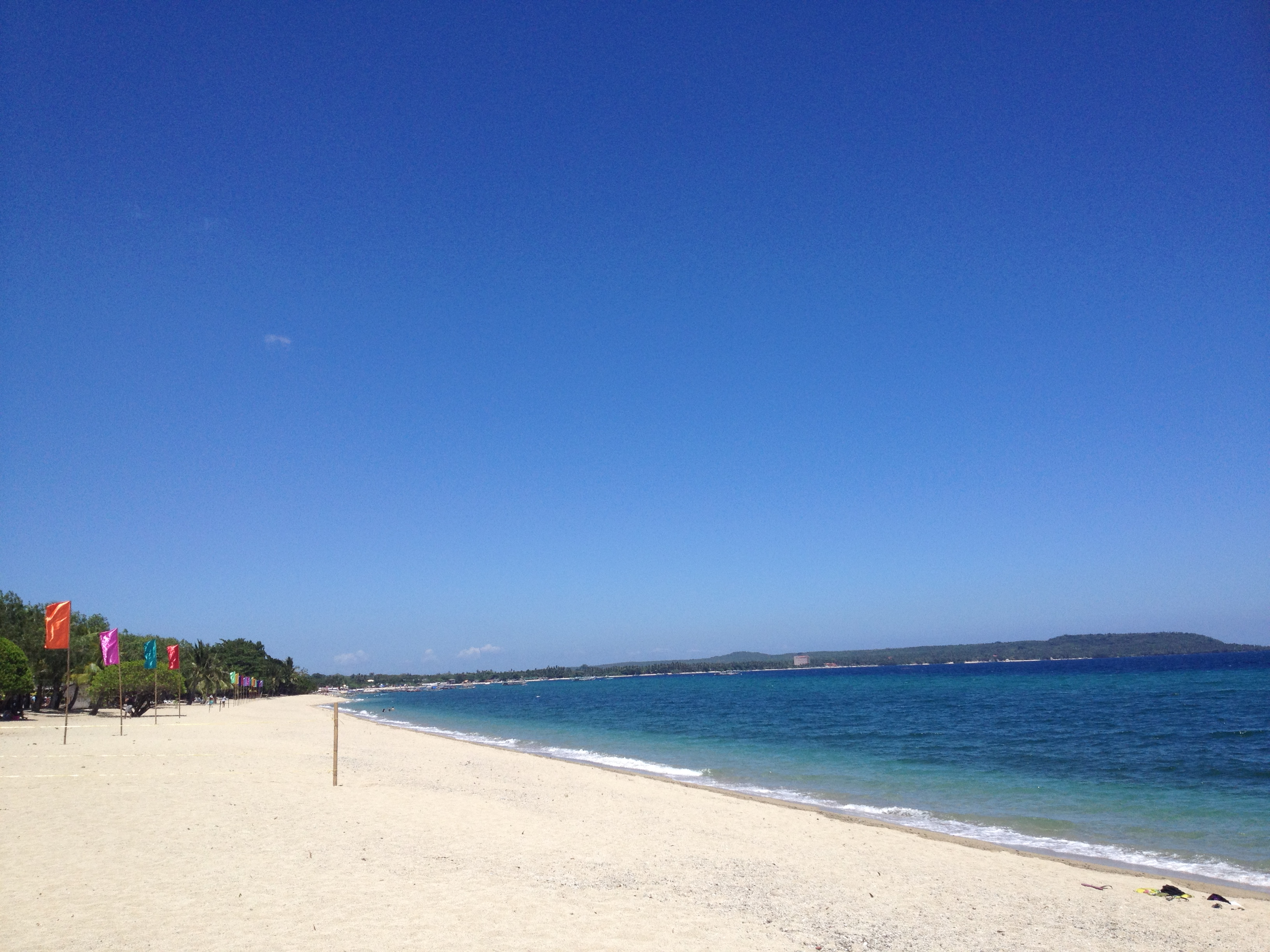 VIrgin Beach Laiya Batangas Philippines